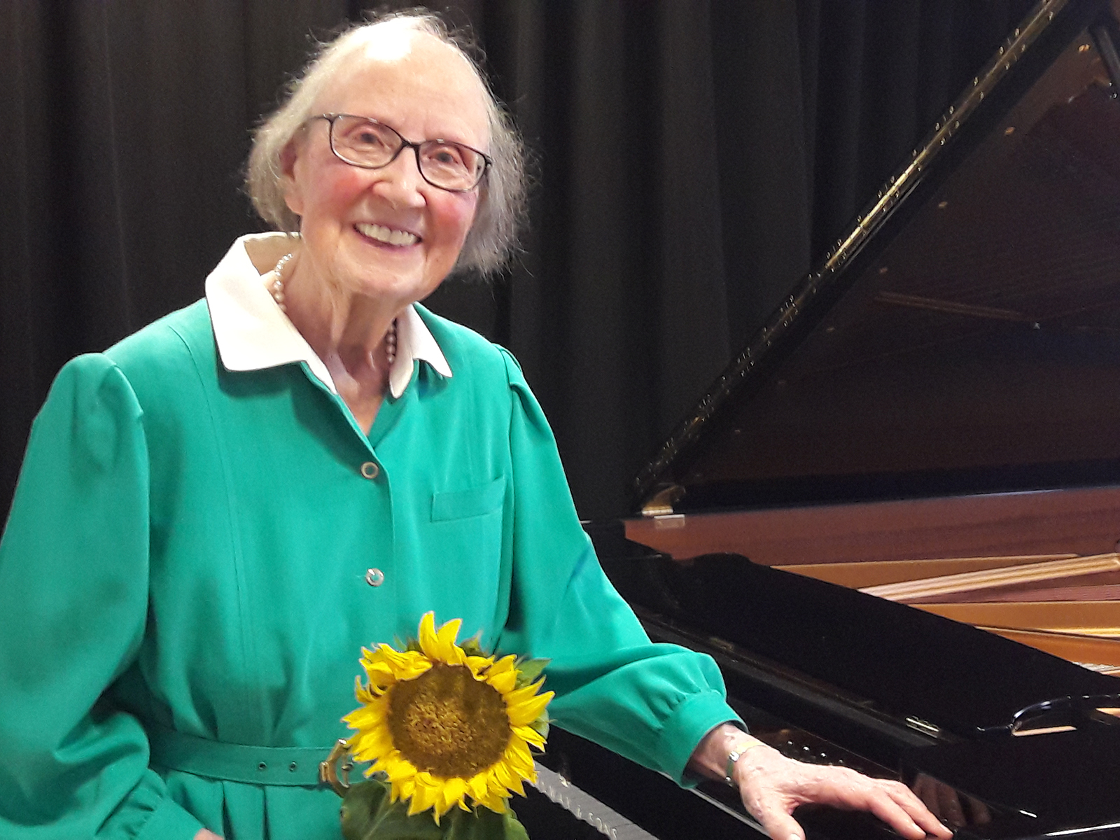 Poet/composer Gerda Herrmann at Zukunftsklang Festival in Stuttgart, Germany, October 19, 2019.